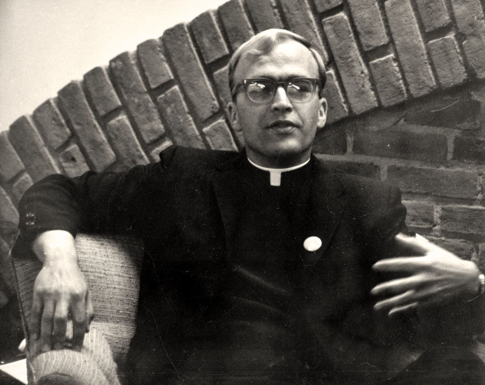 Father William DuBay about 1968, Los Angeles